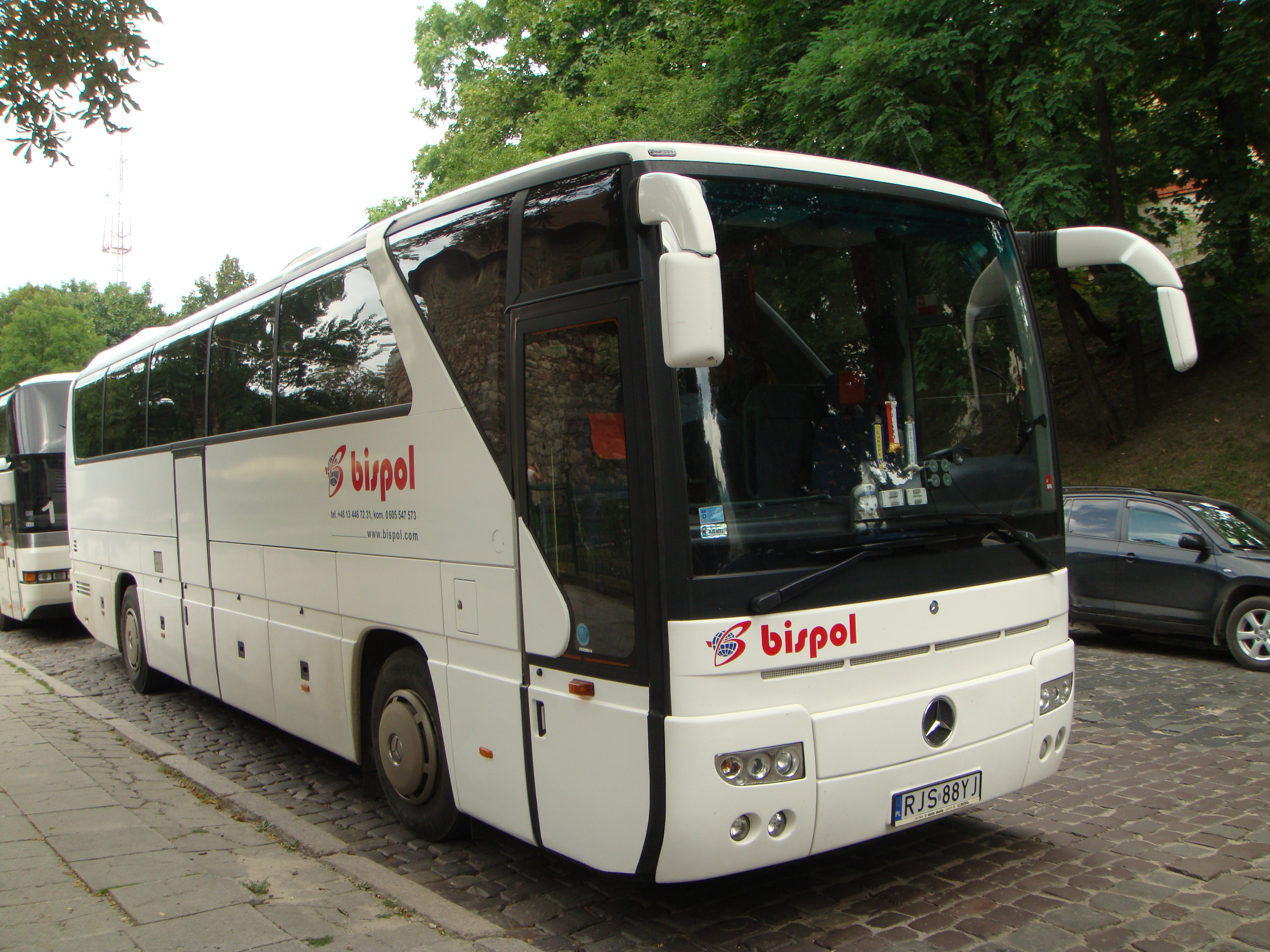 Mercedes-Benz O350 RHD Tourismo coach in Lviv, Ukraine. Bispol Jasło from Poland operator.